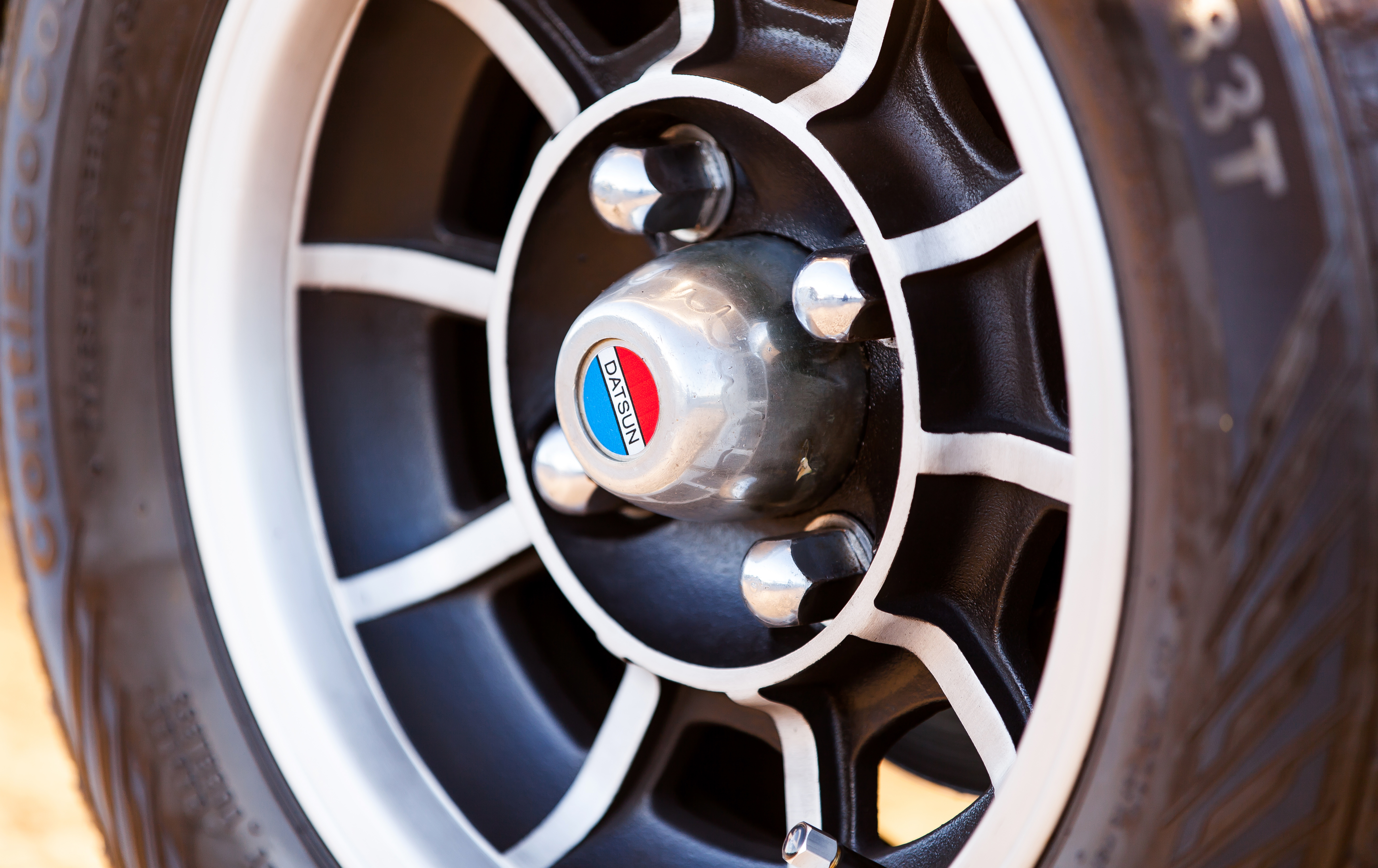 Canary yellow Nissan-Datsun (B210) 160Z Sports Coupe, South African. Alloy wheels designed by Eddie Keizan of Tiger Wheels. Courtesy of Lee-Ann Vigus - &